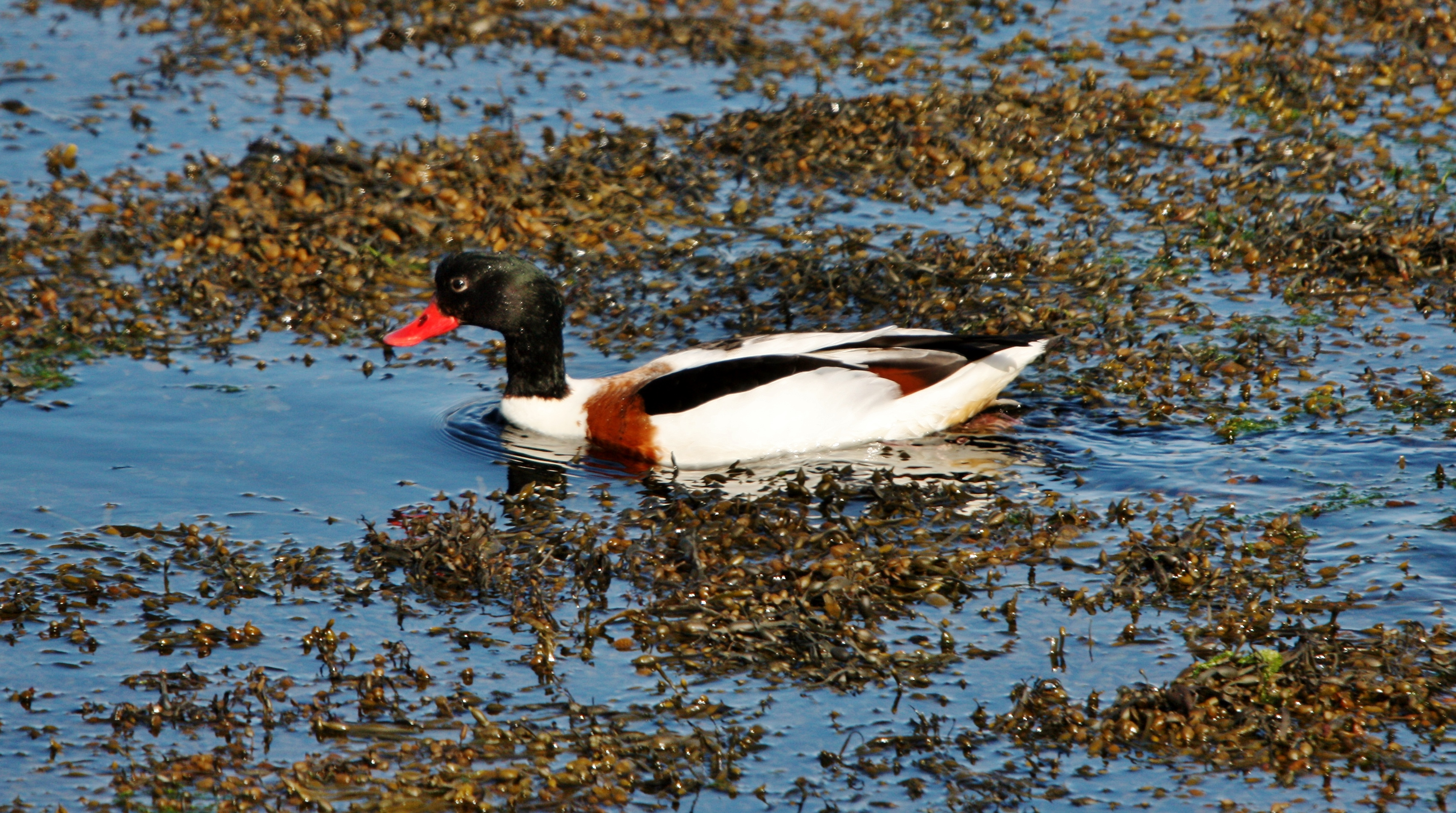 Gone Fishing ! IMG_7977